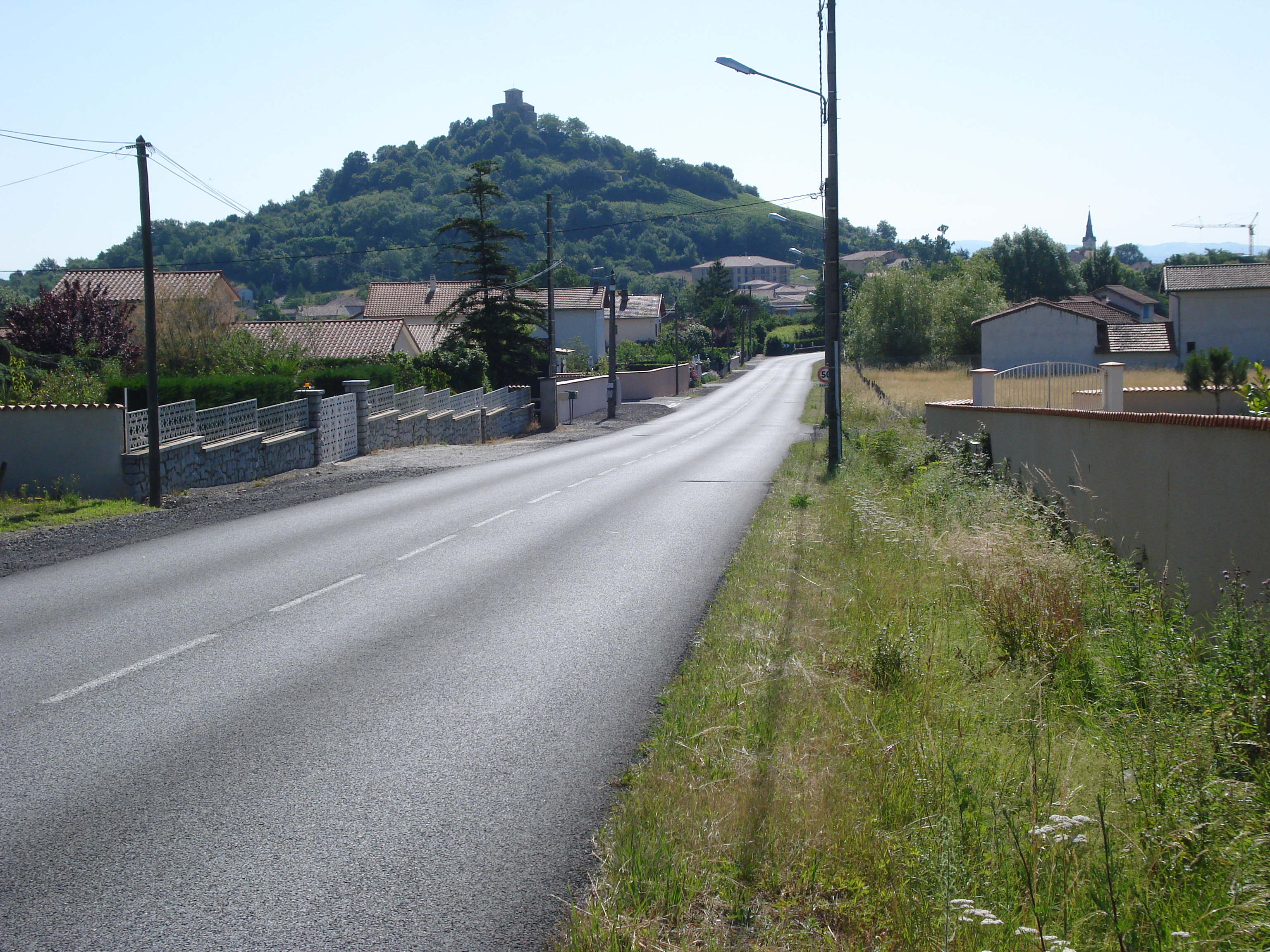 View of Saint-Romain-le-Puy (Loire, Fr)